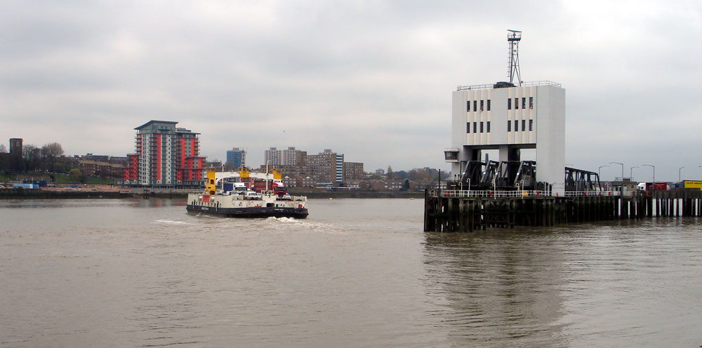 Woolwich Ferry departing north terminal. London, UK. Photo taken by me 19:23, 21 April 2006 (UTC)